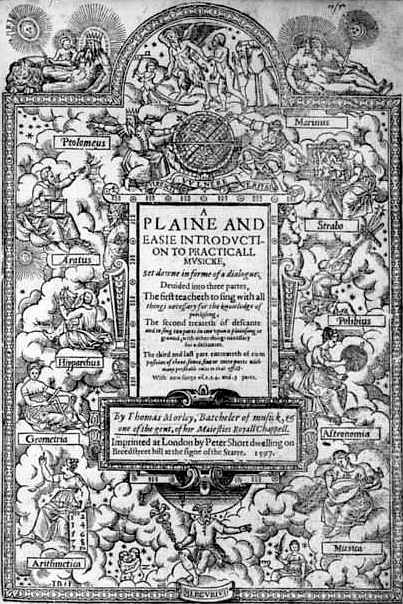 Title page of Plaine and Easie Introduction to Practicall Musicke (1597) by English composer, organist and musicologist Thomas Morley (1557 or 1558 – 1602).